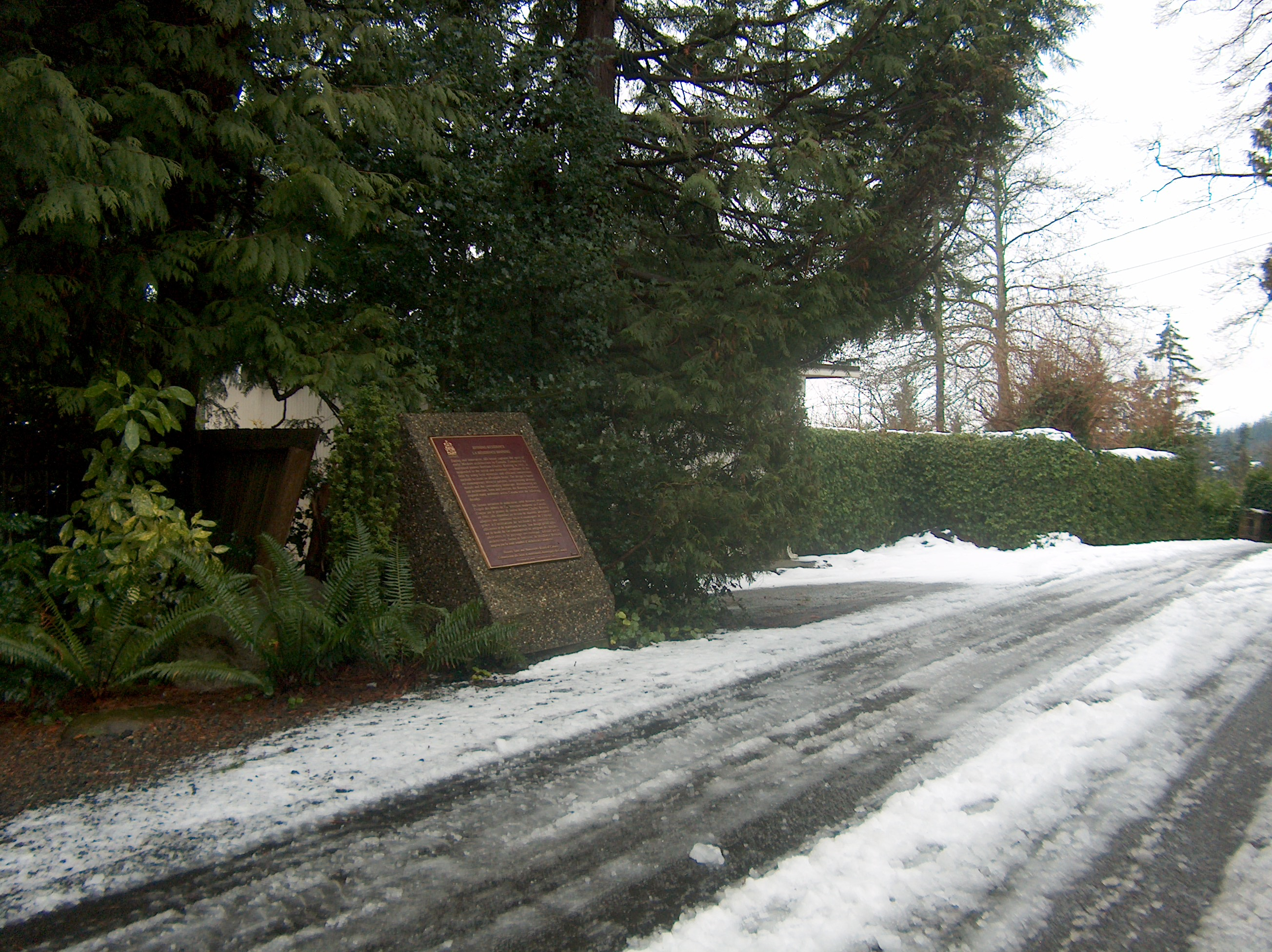 Colour photo of the plaque in front of the B.C. Binning House in West Vancouver